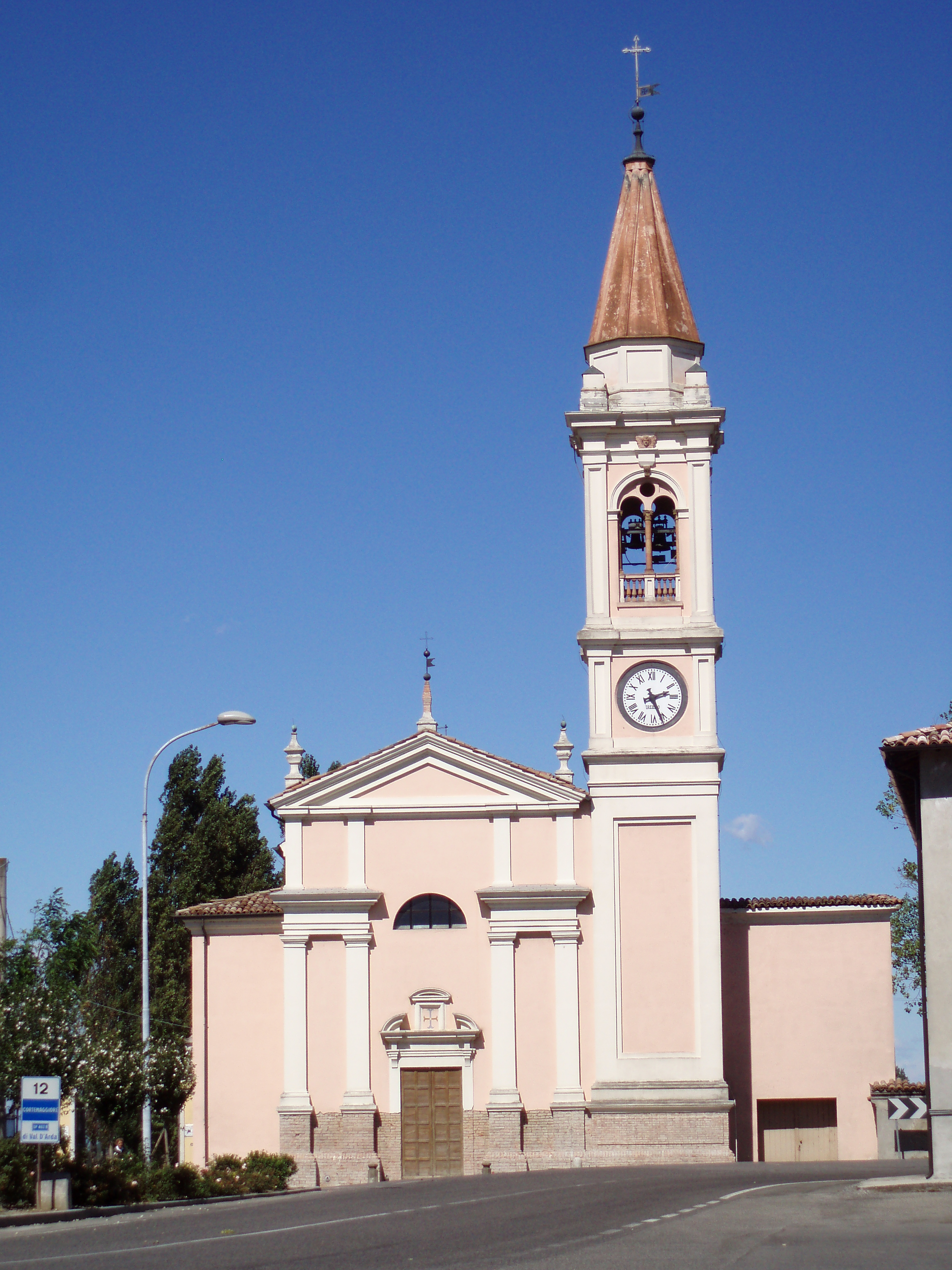 The church of Santa Maria delle grazie fuori le mura, in Cortemaggiore, Piacenza province, Italy.